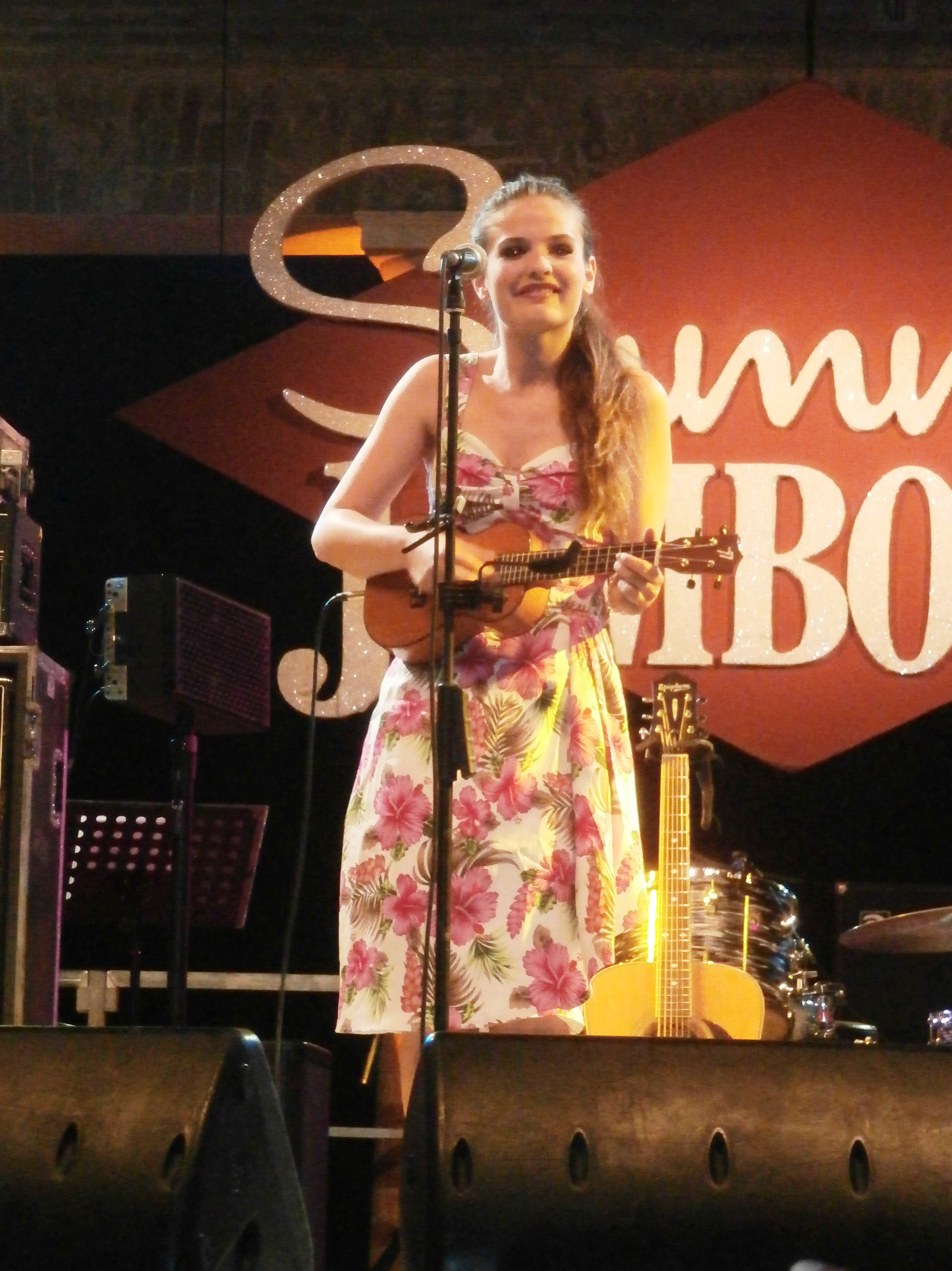 Violetta during her live performance at Summer Jamboree Festival in Senigallia (Italy), 2 August 2014